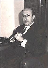 prime minister of Iran Hassan Ali Mansur